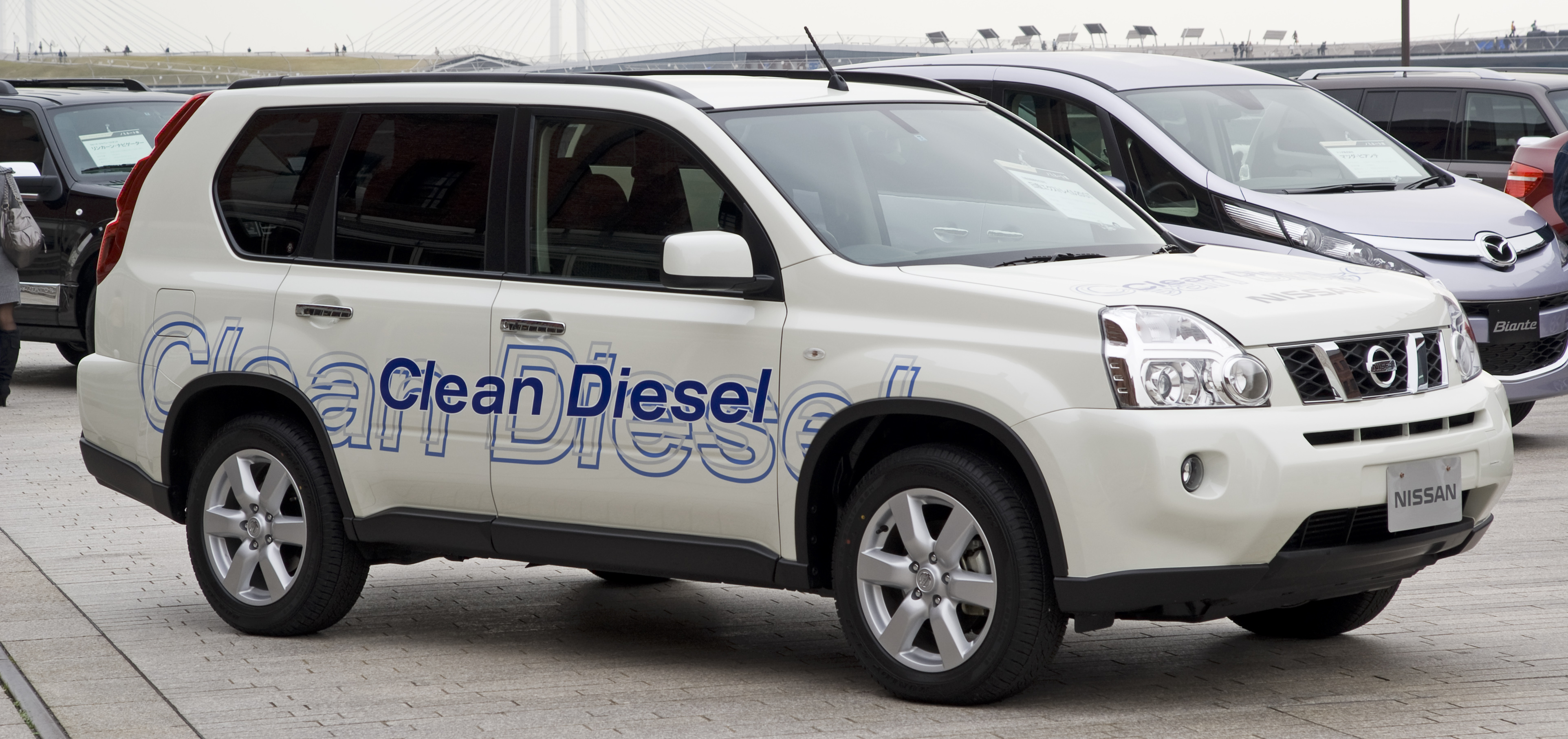 2008 2nd generation Nissan X-TRAIL 20GT (equipped with Nissan M9R 2.0L Diesel engine) photographed in Nissan Gallery (Chuo, Tokyo)